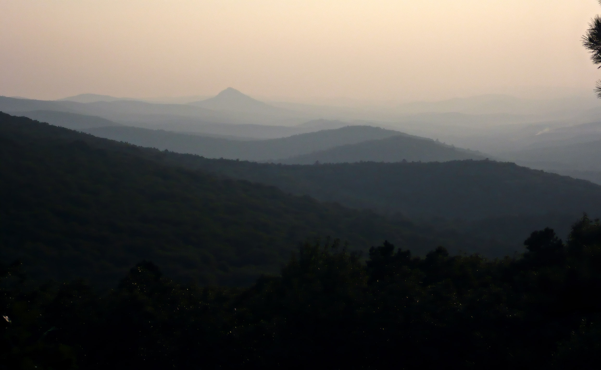 Flatside Wilderness Area, Ouachita Mountains, Arkansas